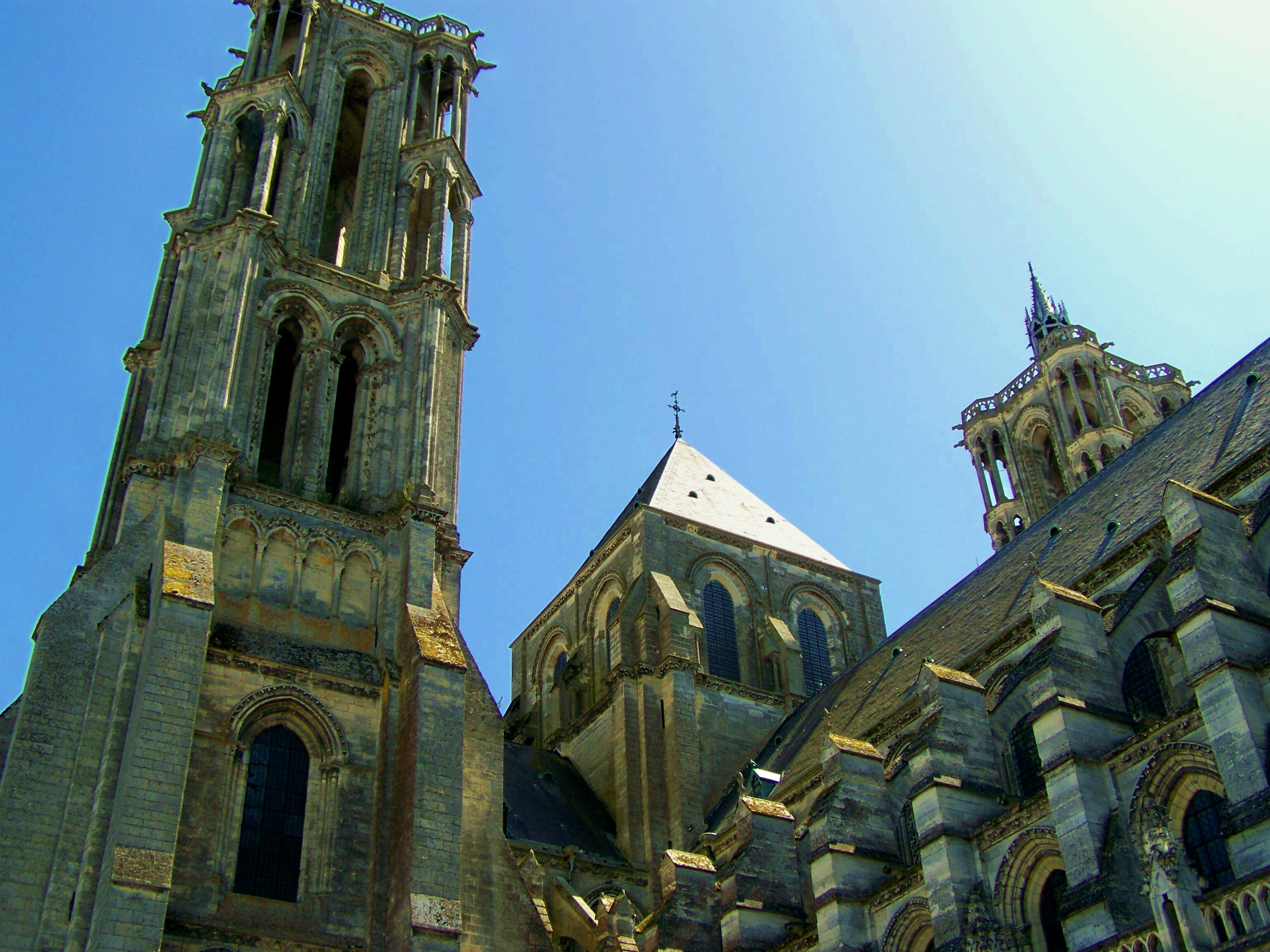 Laon Cathedral (Cathédrale Notre-Dame de Laon) in Laon, France